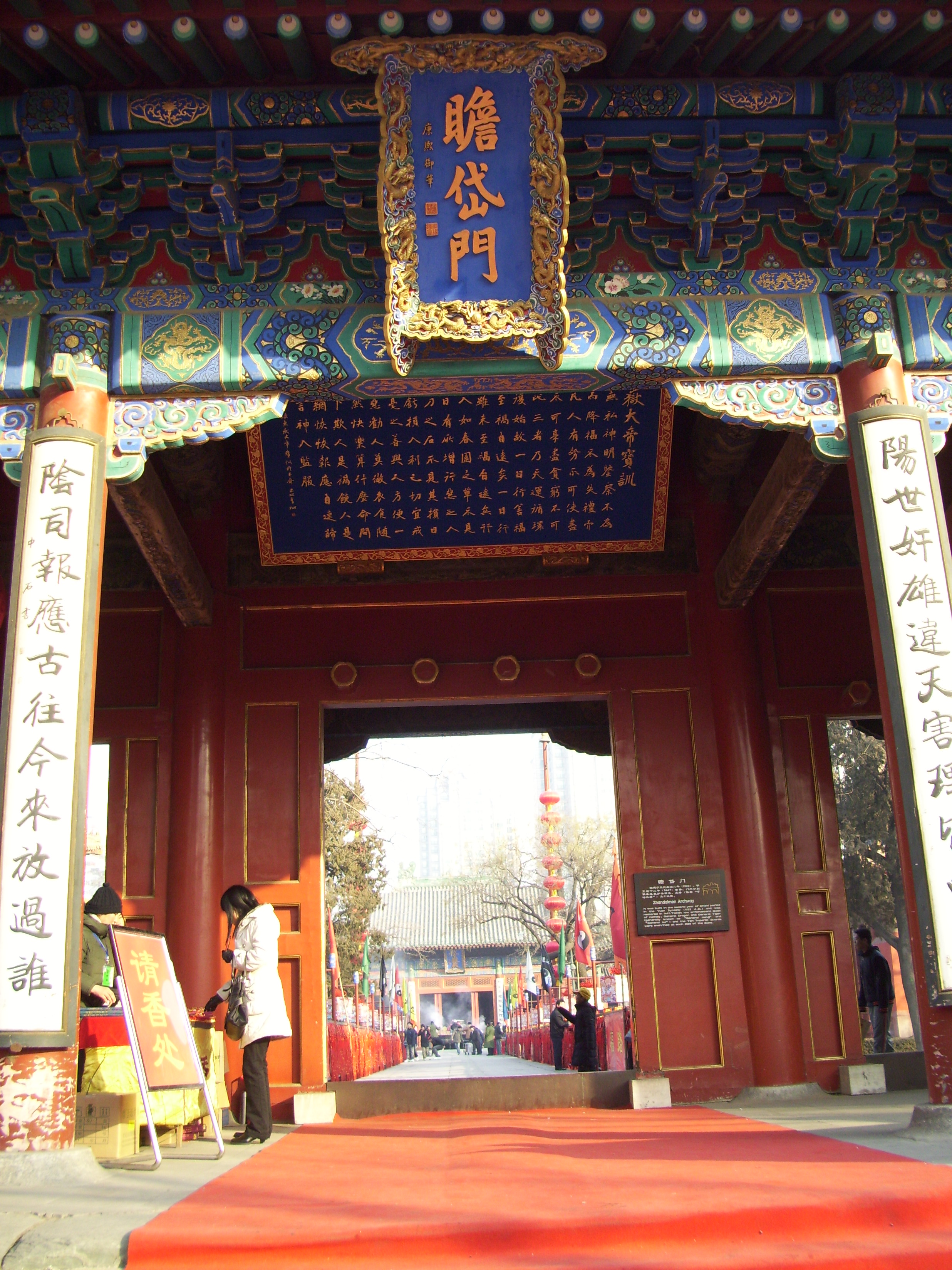 Zhandaimen Archway